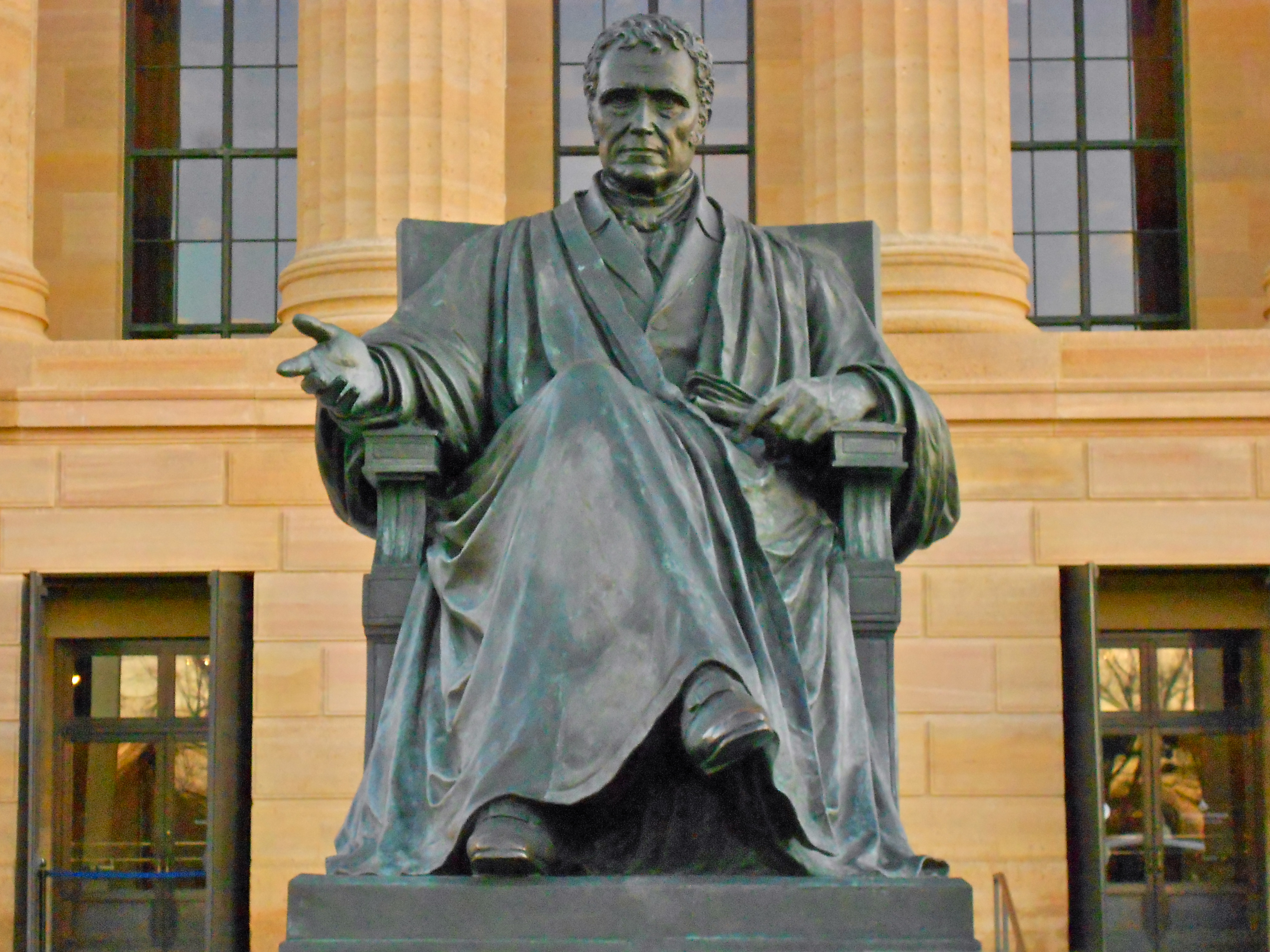 Sculpture of Chief Justice John Marshall by William Wetmore Story, 1883. At the Philadelphia Museum of Art, 26th Street & Benjamin Franklin Parkway, West entrance. In inches 75 x 51 x 77 1/2 . Bronze sculpture with granite base. SIRIS reference IAS PA000014